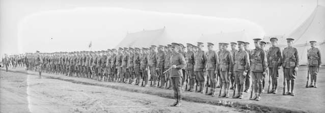 Soldiers from the Australian 3rd Pioneer Battalion, AIF, on parade at Campbellfield, Victoria, May 1916 prior to embarkation for Europe.